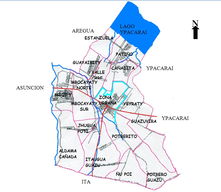 compañias de itauguá